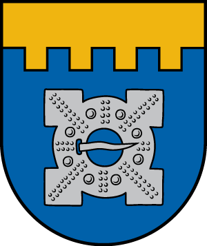 Coat of arms of Dobele Municipality, Latvia.